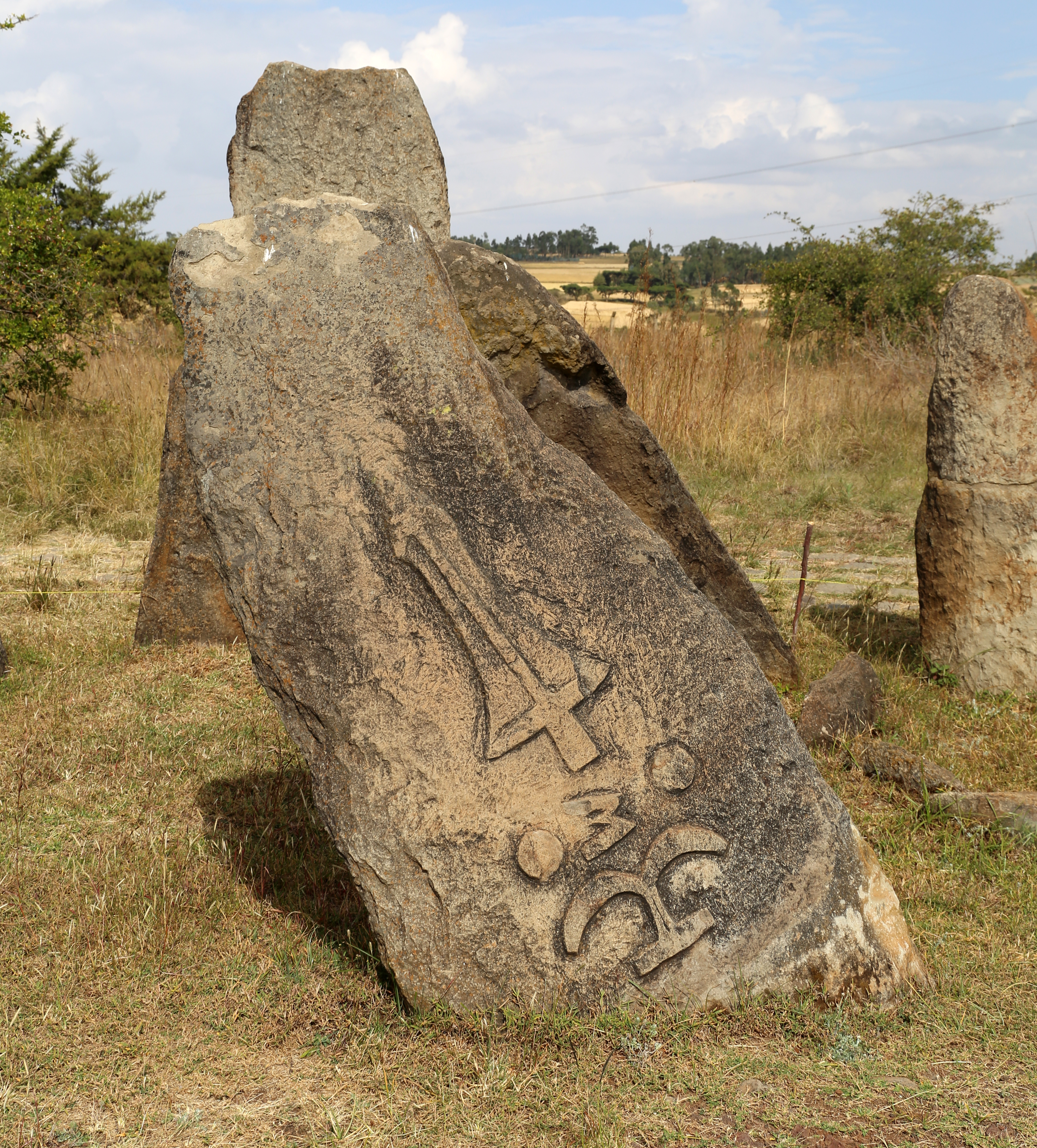 Tiya, Ethiopia